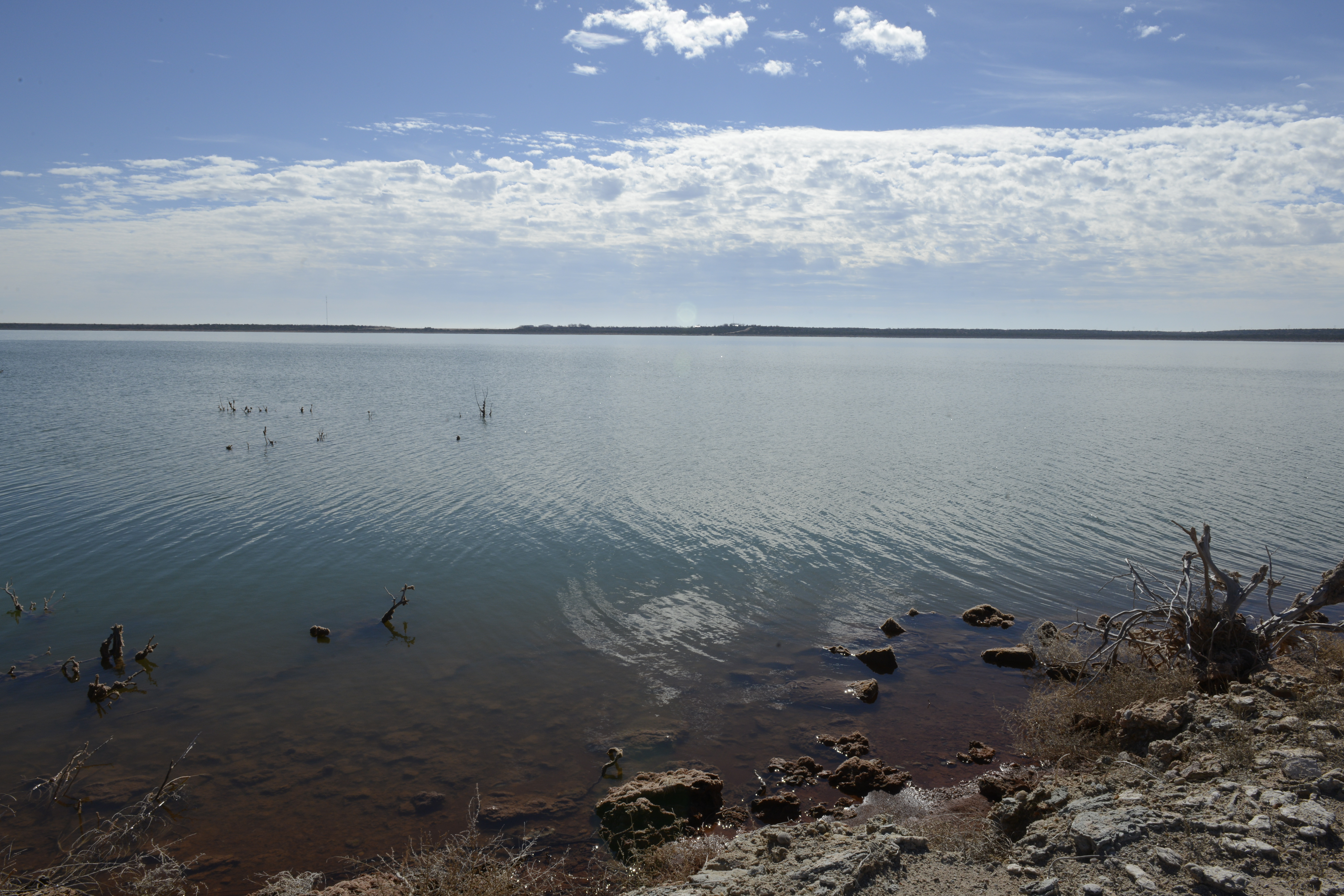 Truscott Brine Lake, Knox County, Texas.